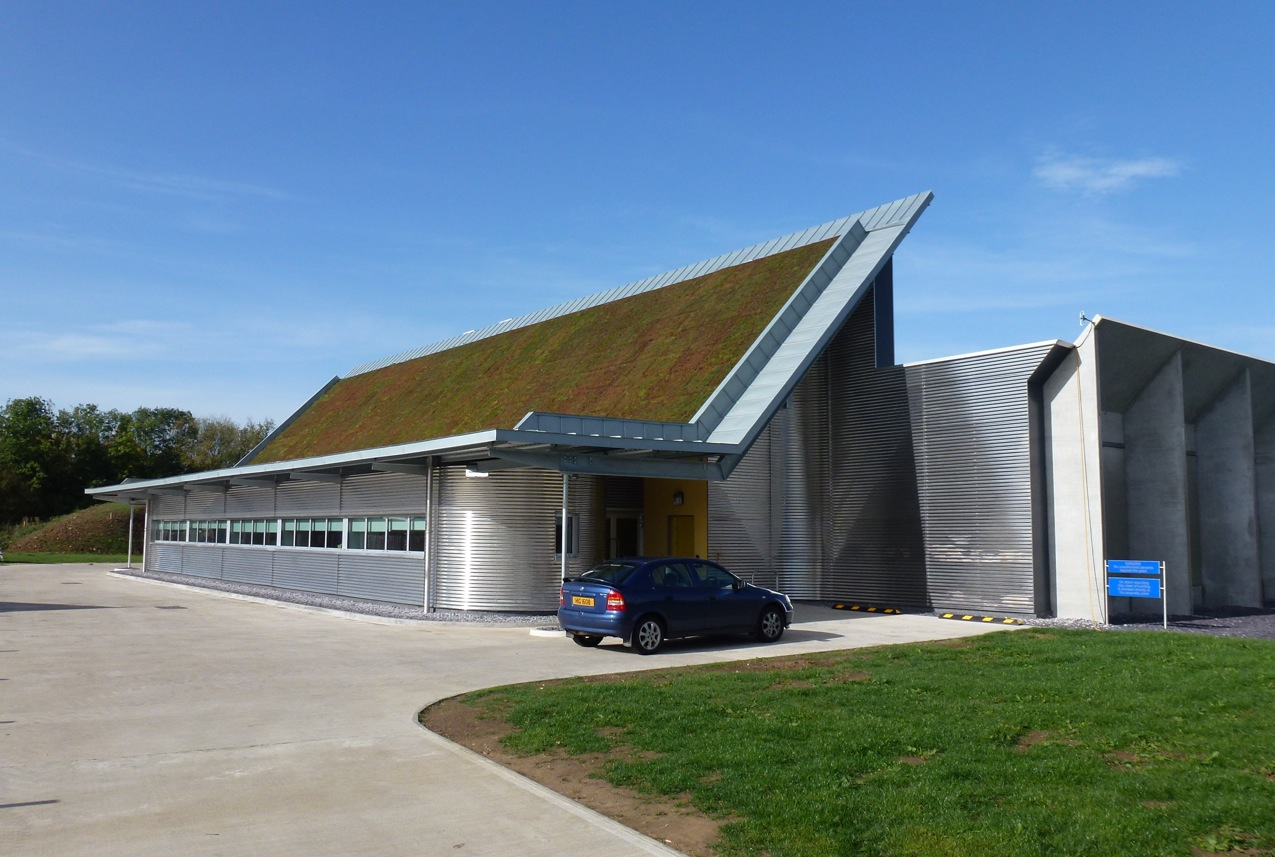 New master film store for the British Film Institute National Film & Television Archive, Gaydon, Warwickshire, designed by Edward Cullinan Architects, opening 2011 - close up of offices and workshops